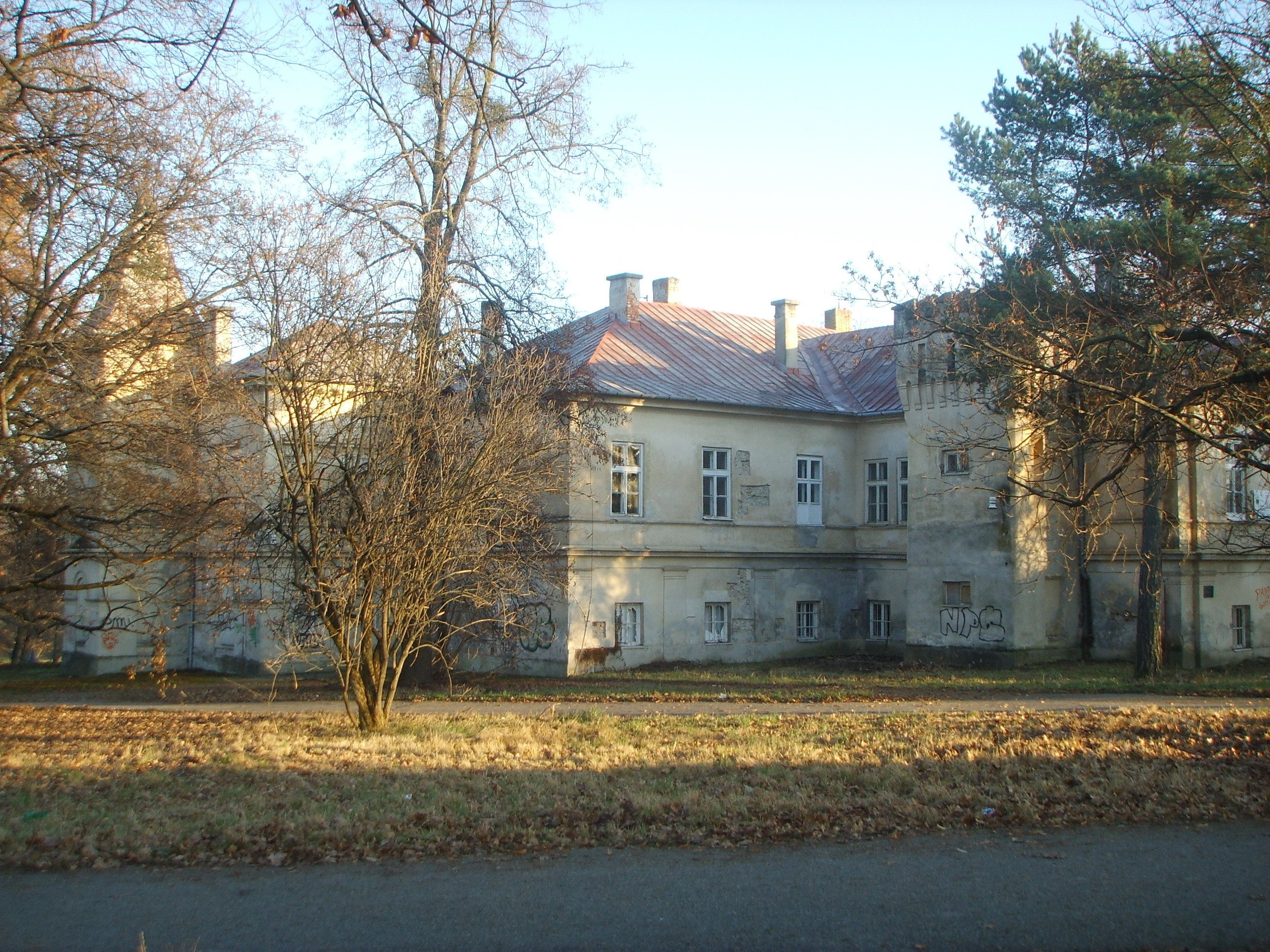 Barczay manor House, Košice - Barca